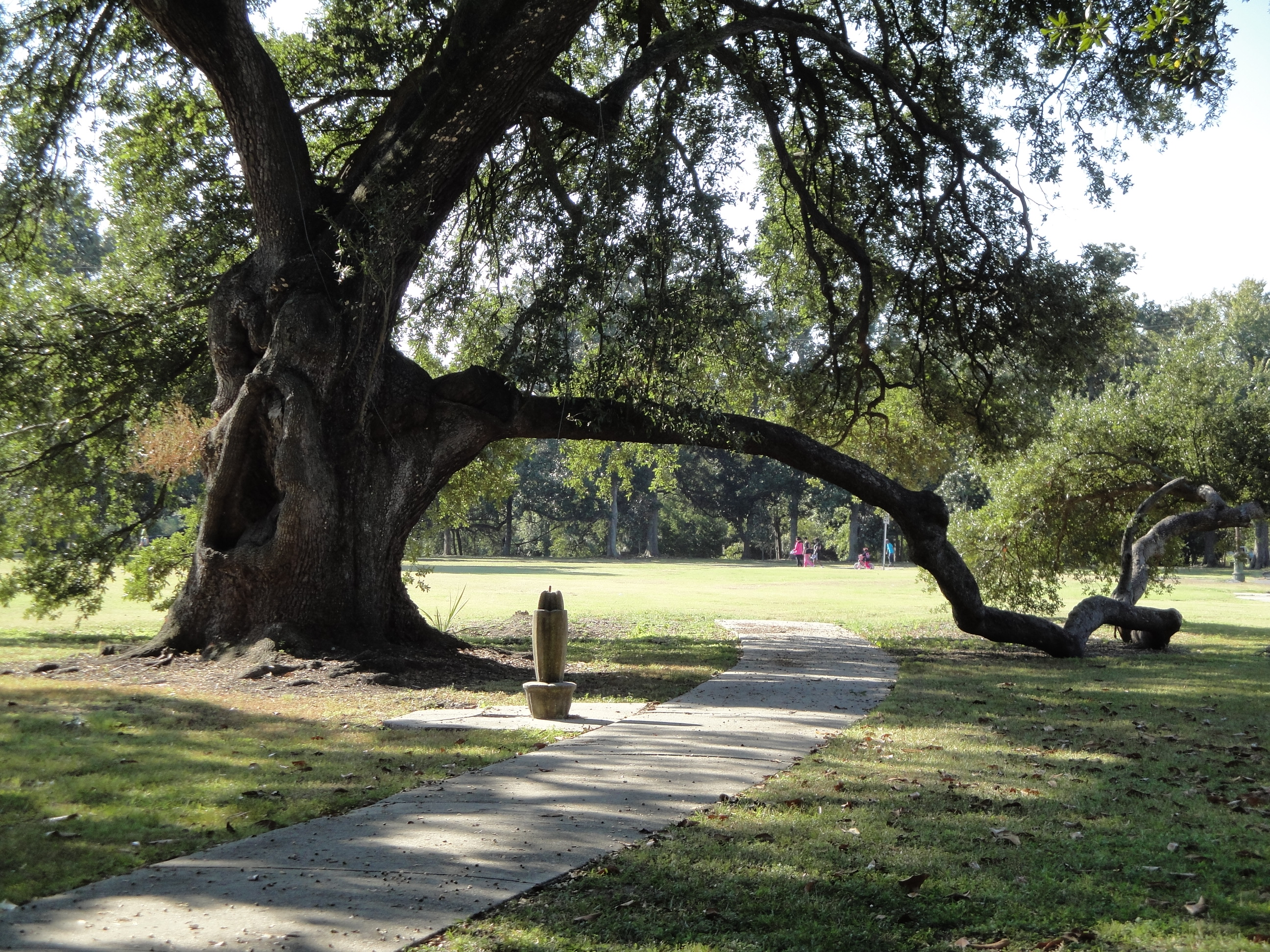 "Suicide Oak" or "Suicide Tree", by tradition several suicides by hanging were committed at this tree in the 19th century. City Park, New Orleans